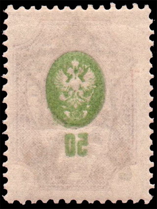 Mirror print (Russia stamp, 1889, 50 k.)